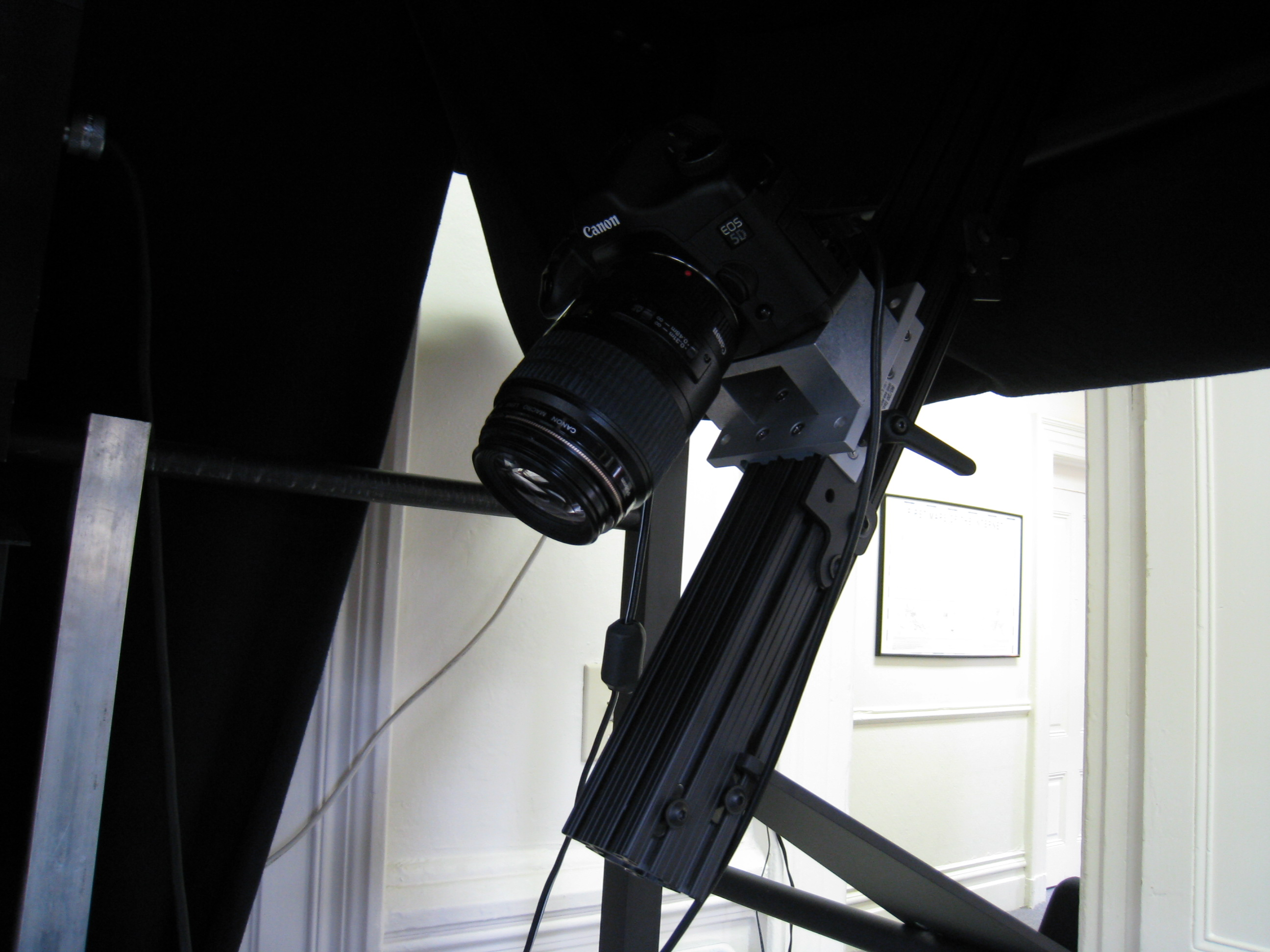 One of two cameras on a book scanner at the Internet Archive headquarters in San Francisco, California.